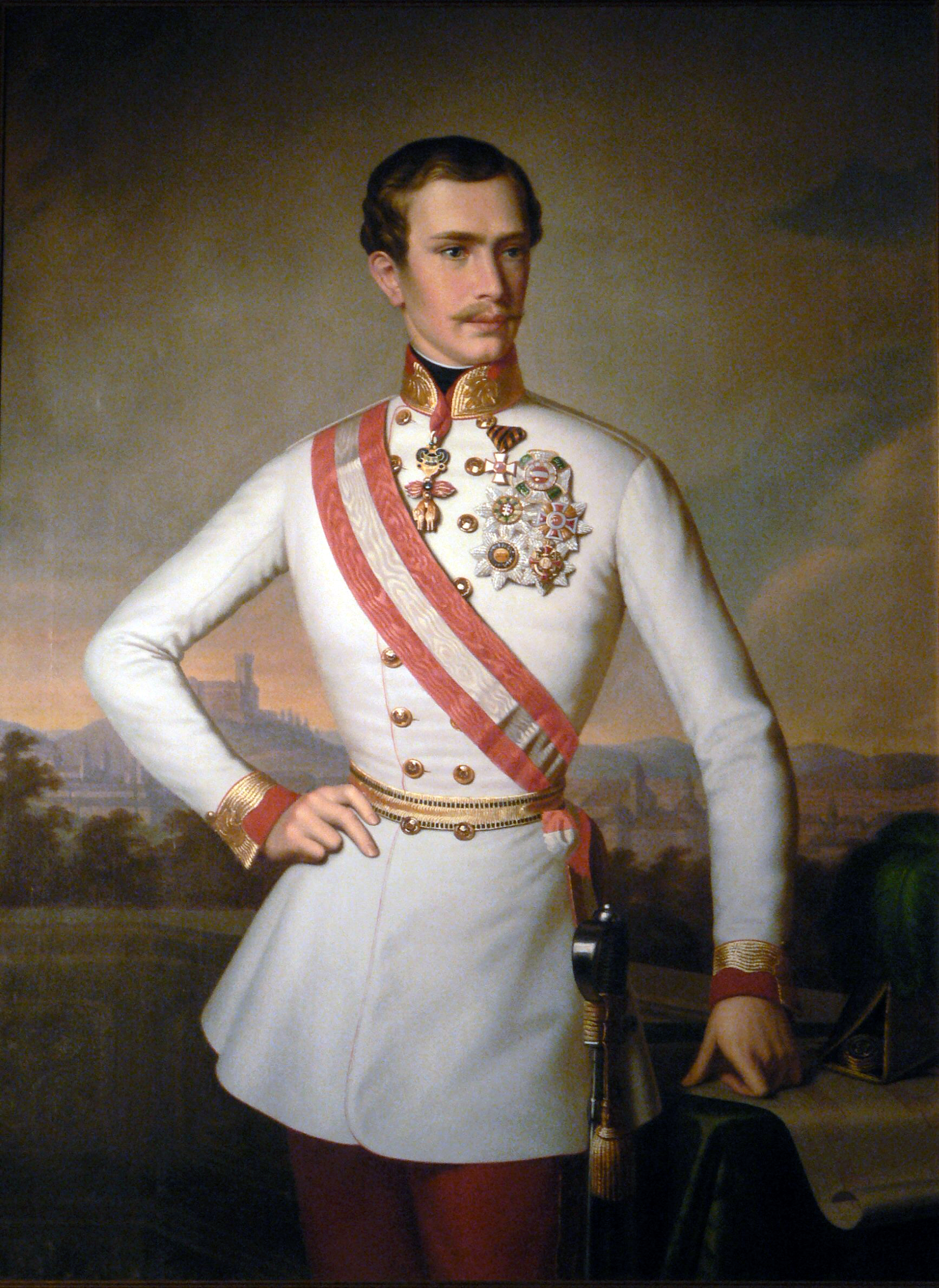 Portrait of His Majesty Emperor Franz Joseph of Austria in Ljubljana. City Museum of Ljubljana (Mestni Muzej Ljubljana).